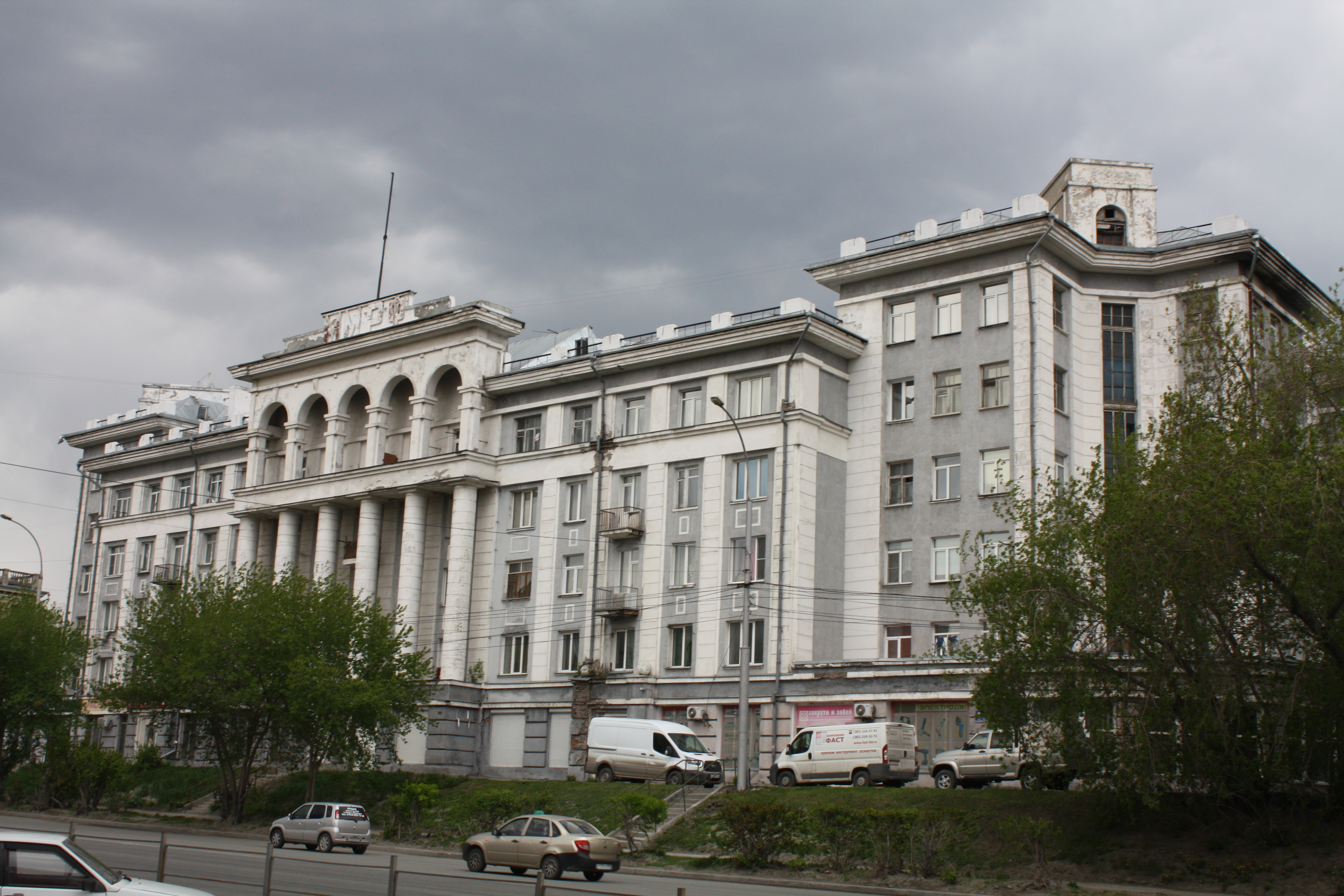 River Fleet House also known as the House of Loaders (Fabrichnaya Street 6), Zheleznodorozhny City District, Novosibirsk. The building was built in 1937.